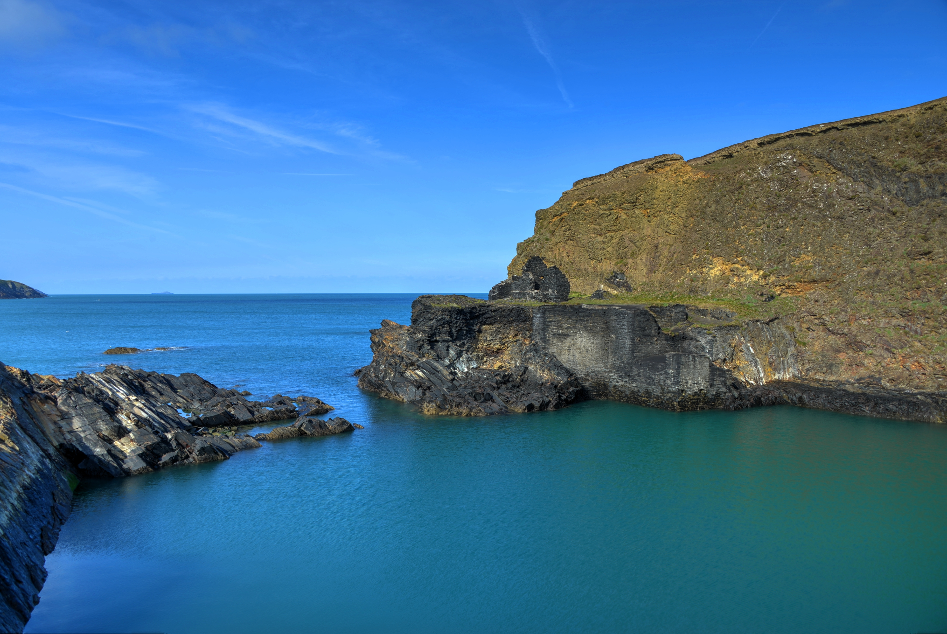 The Blue Lagoon, an old slate quarry now inundated by sea water. The lagoon water is colored differently from the sea water due to the minerals in the old quarry.